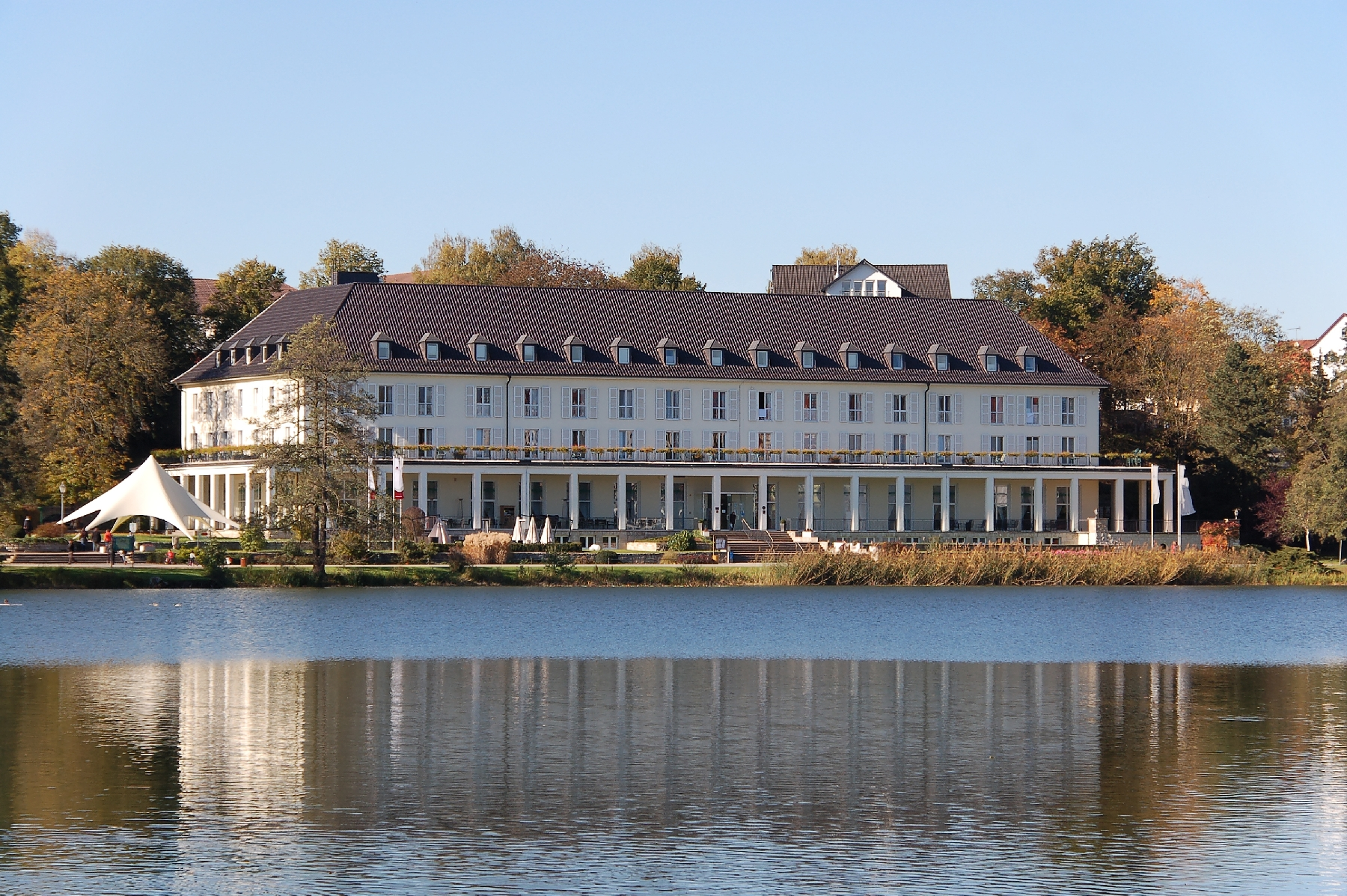 Bad Salzungen 2011